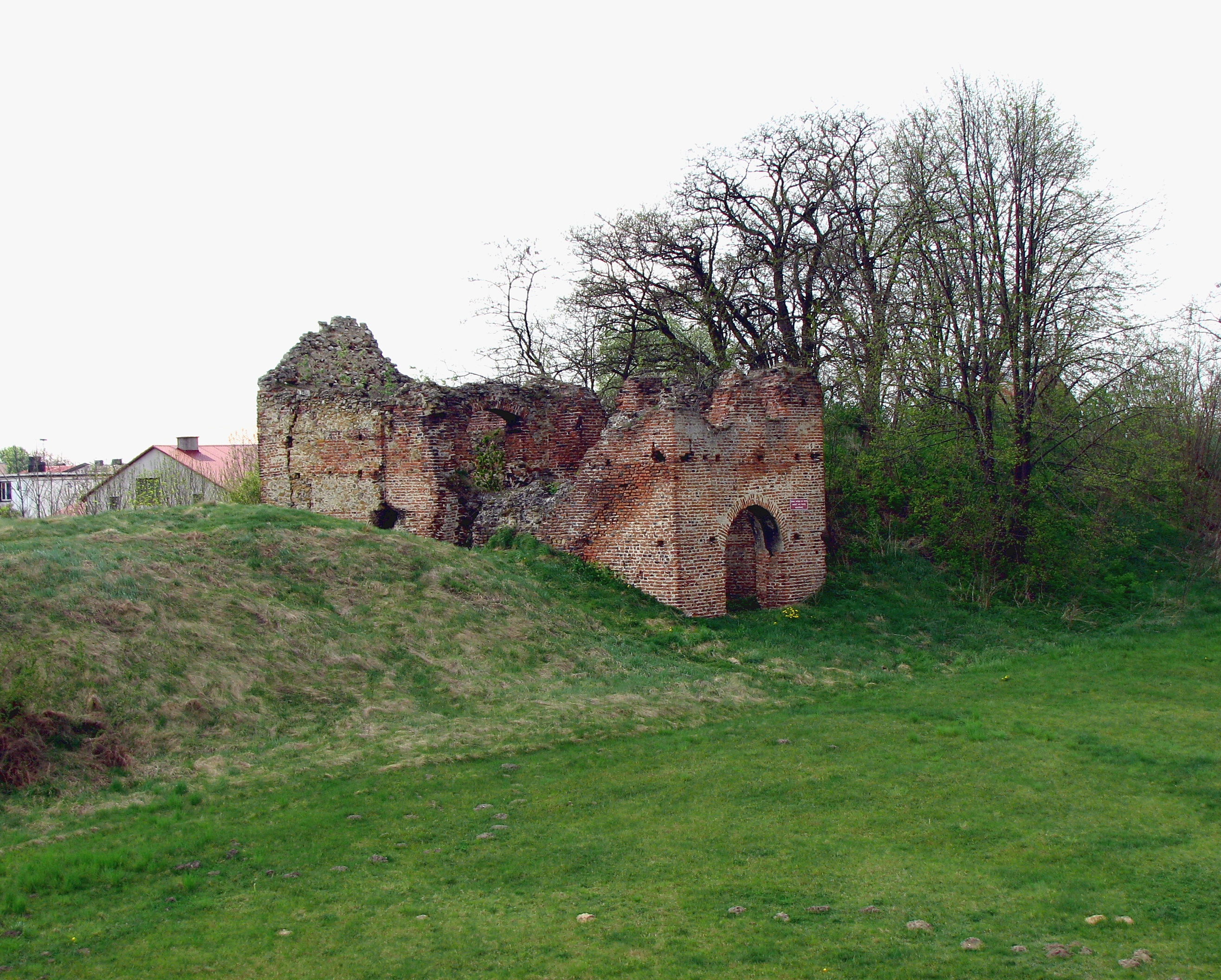 Danków, Silesian Voivodship Poland. Ruins of the Castle